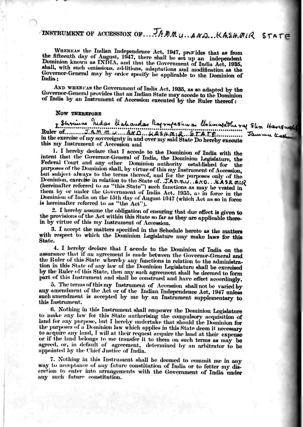 Kingdom of Kashmir accession to Dominion of India document 10/26/1947 State Department library